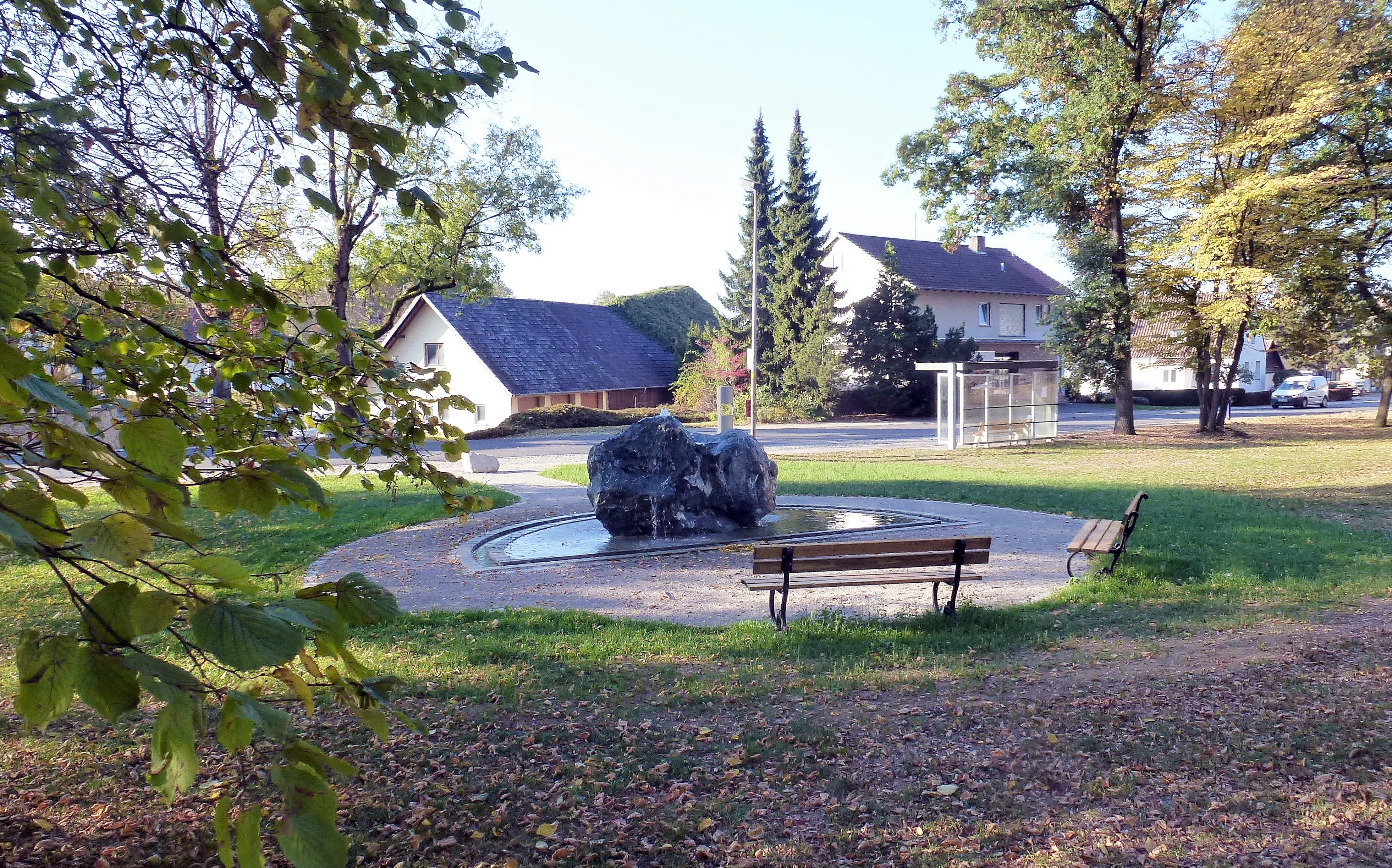 The Quellstein fountain in Weidach in October 2018